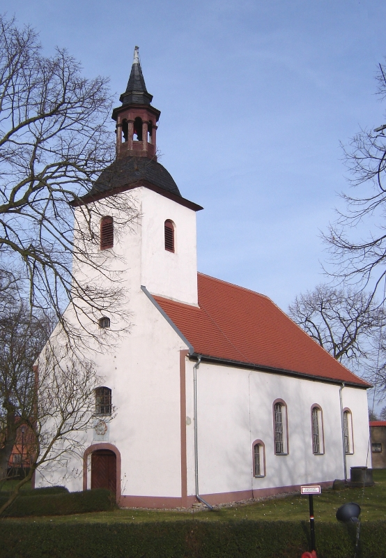 Protestant church of Zerben, Saxony-Anhalt